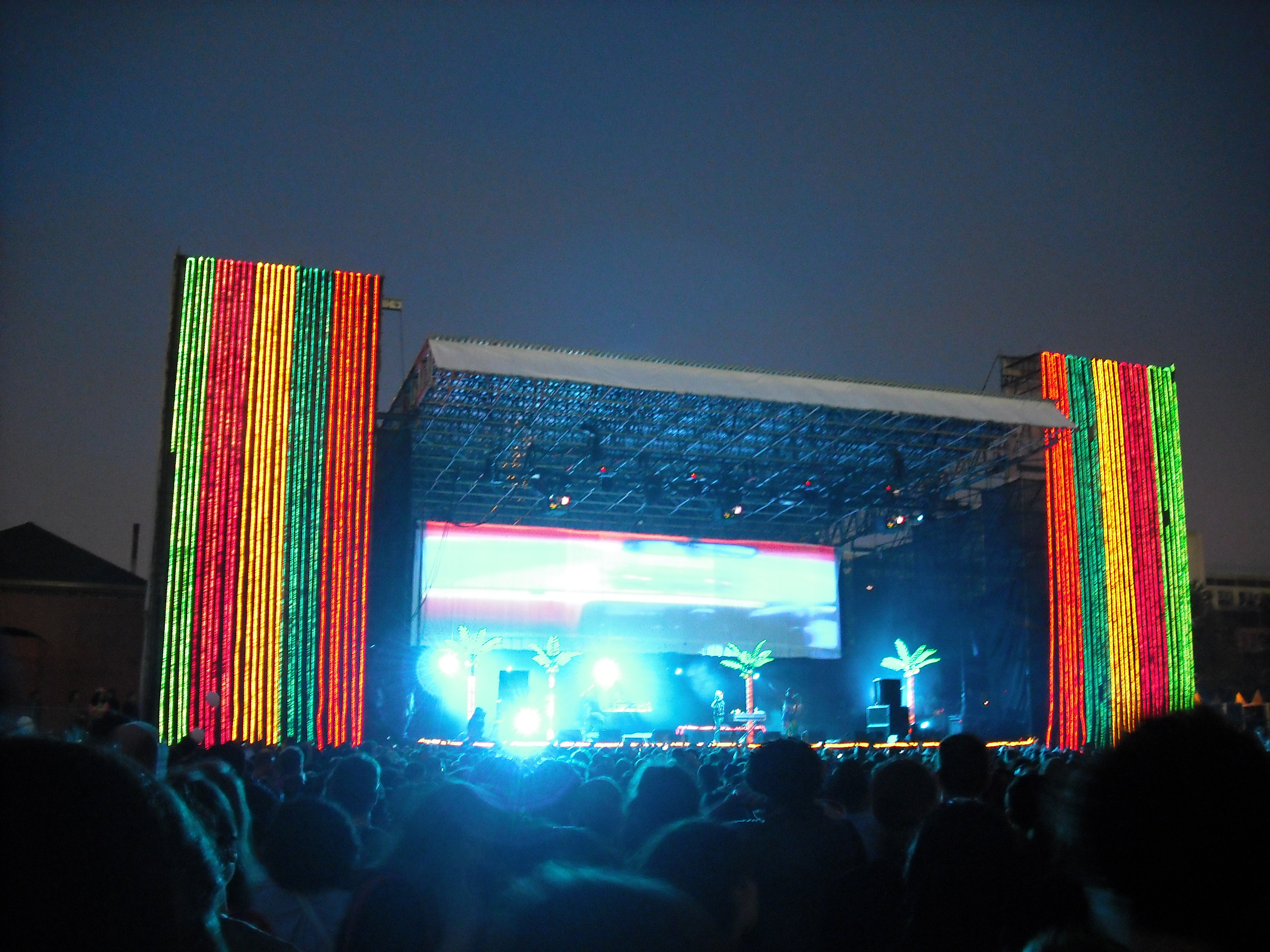 M.I.A. performing her headlining gig at McCarren Park Pool in 2008